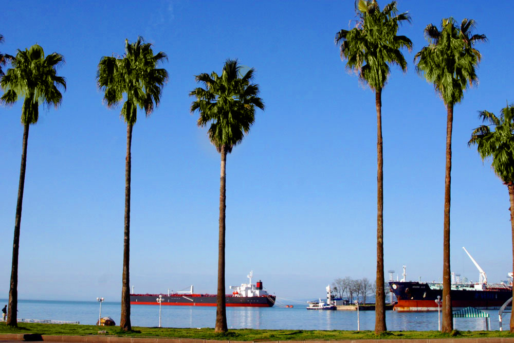 Ships in batumi port, Batumi, Georgia